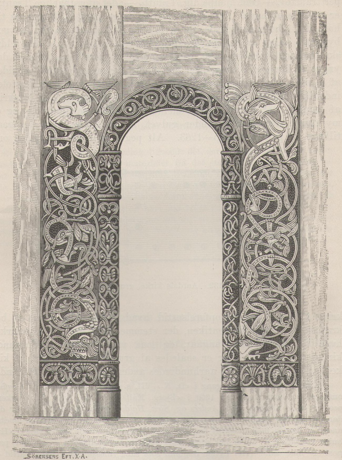 Print of portal from Årdal stave church